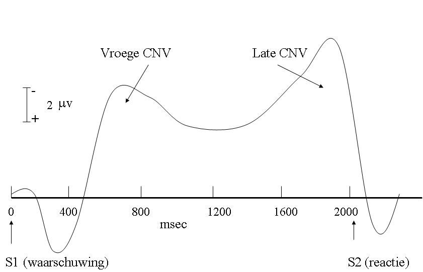 Contingent negative variation: An electrical sign of sensorimotor association and expectancy in the human brain